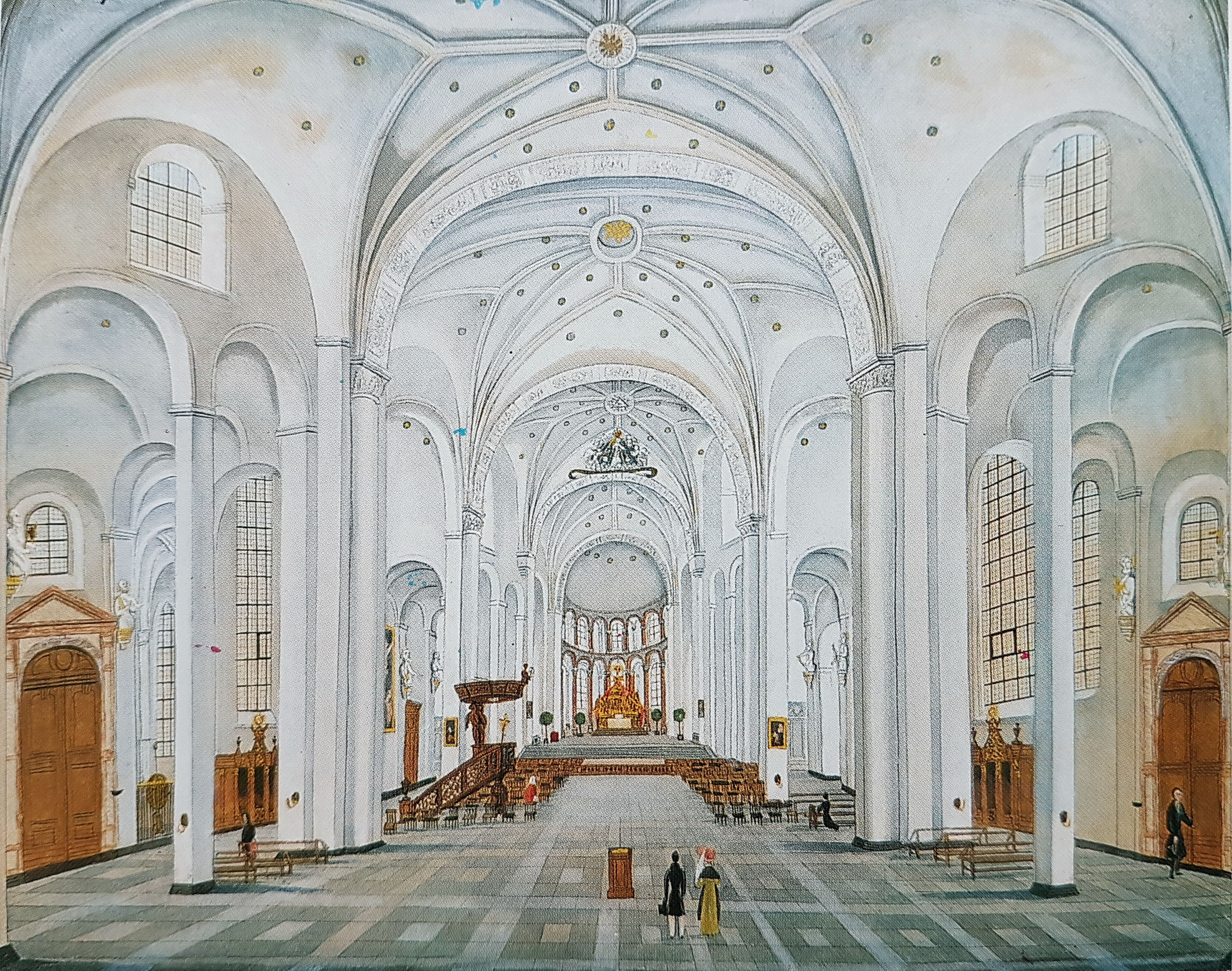 View of the church of Our Lady in Maastricht, the Netherlands. The drawing is by local artist and amateur historian Philippe van Gulpen (mid-19th c).